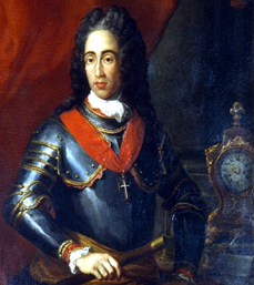 Portrait of D. Luís Carlos Inácio Xavier de Menezes (1689-1742), 5th Count of Ericeira and 1st Marquis of Louriçal.